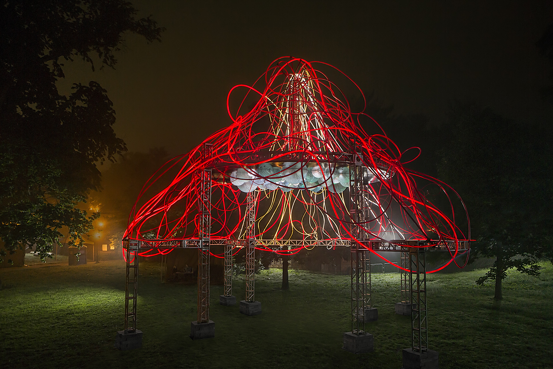 Grimanesa Amoros Hedera Artwork